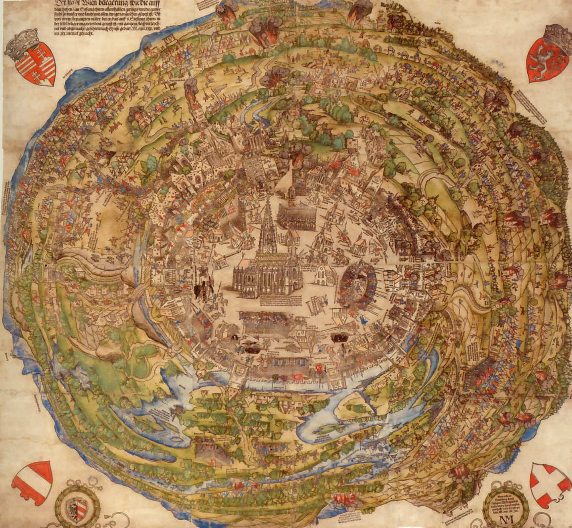 Circular map of Vienna, with St. Stephen's Cathedral at the centre.